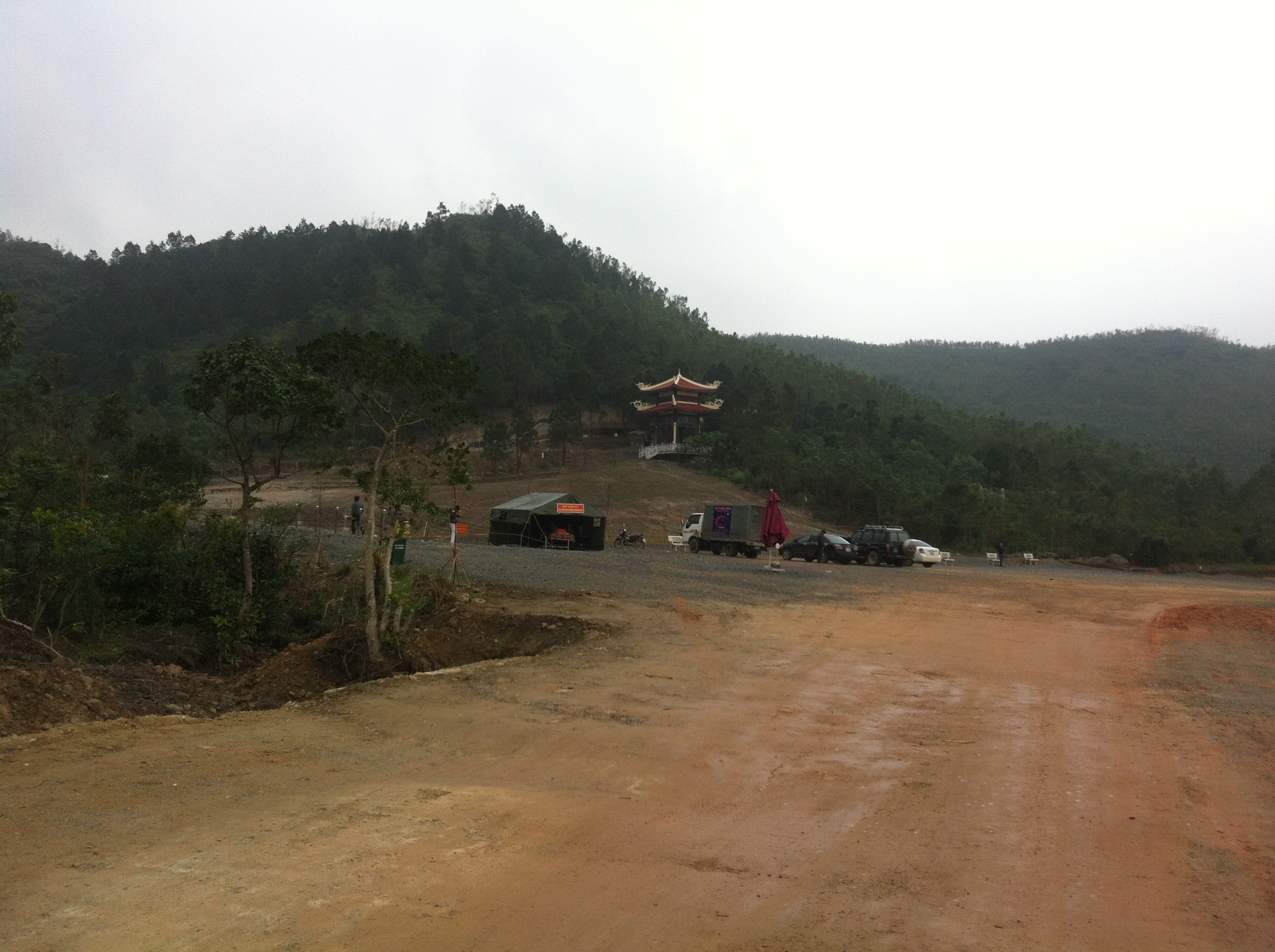 Tomb of General Giap in Quang Binh, Vietnam